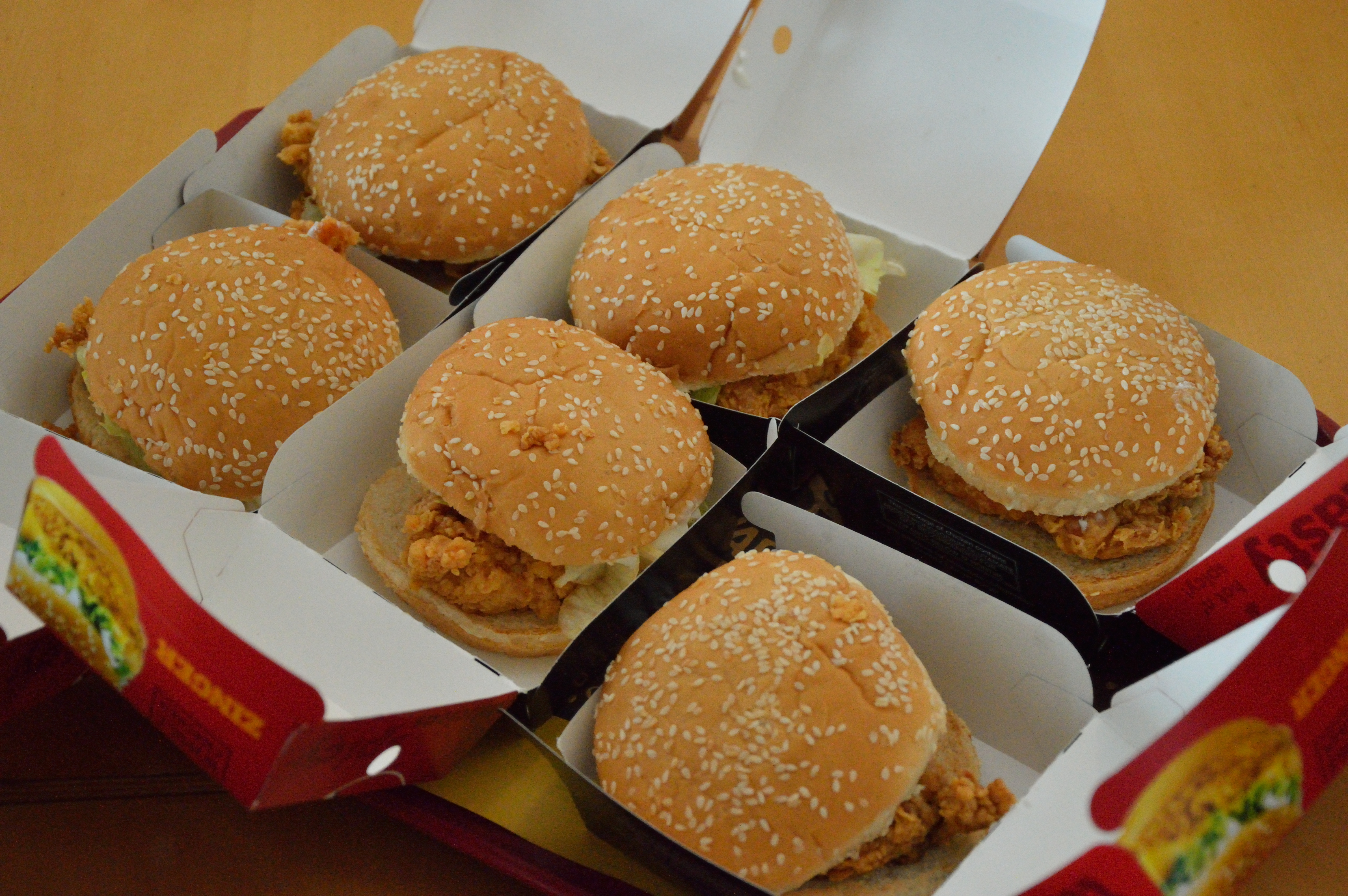 Photographed in Kolkata.